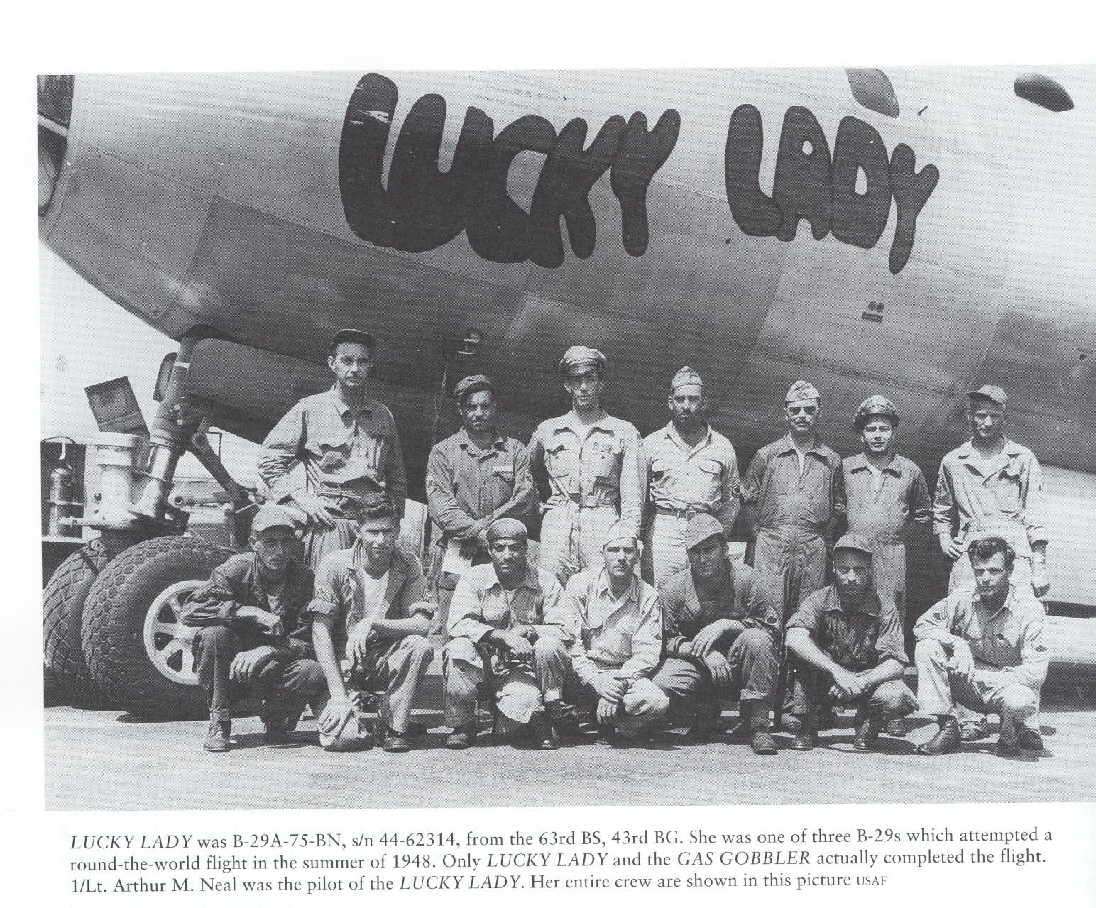 The crew of the Lucky Lady I: the B-29A that circled the globe in fourteen days in 1948, a history photo provided by USAF.